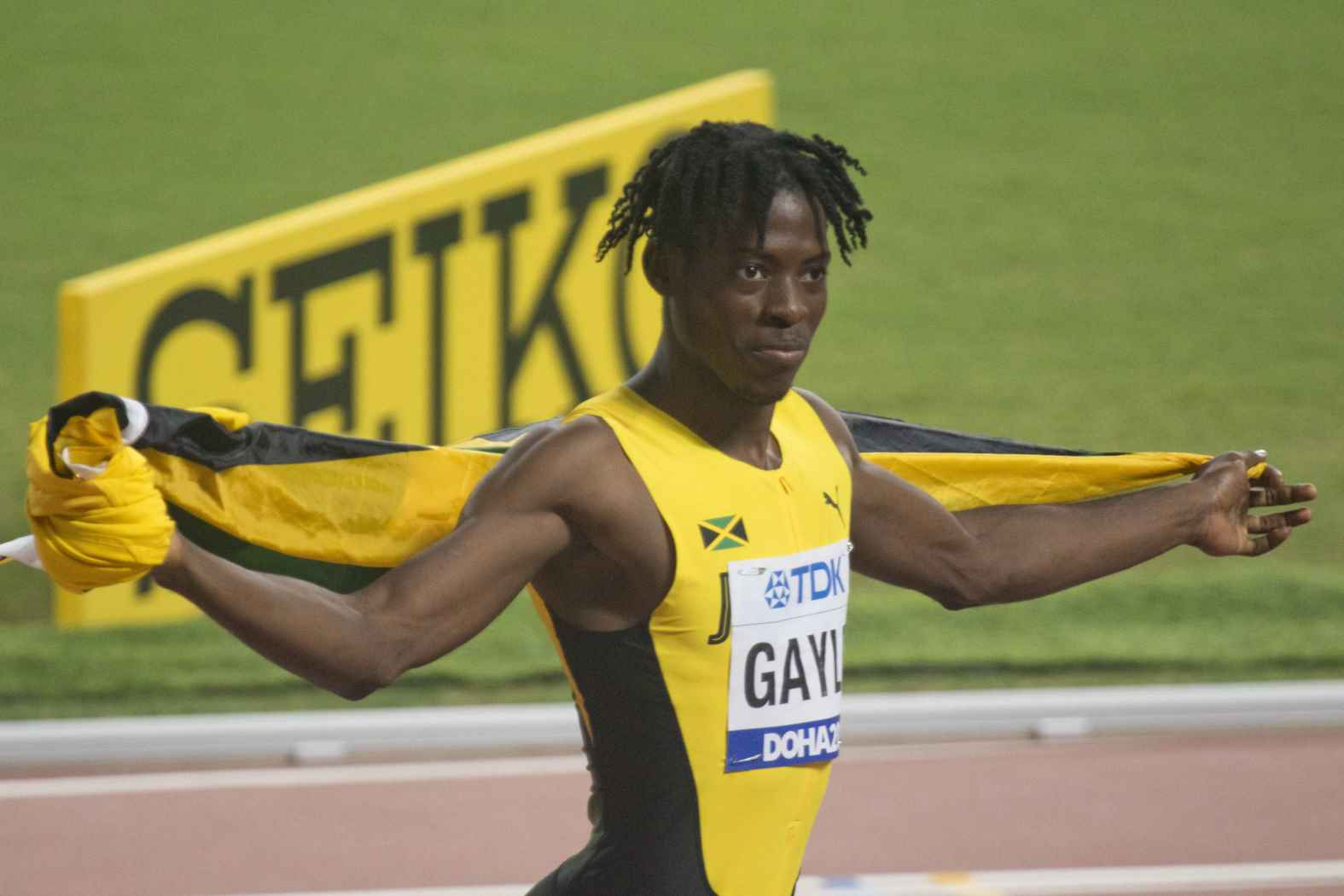 Tajay Gayle winning the long jump competition at the 2019 World Athletics Championships, with a jump of 8.69 metres.